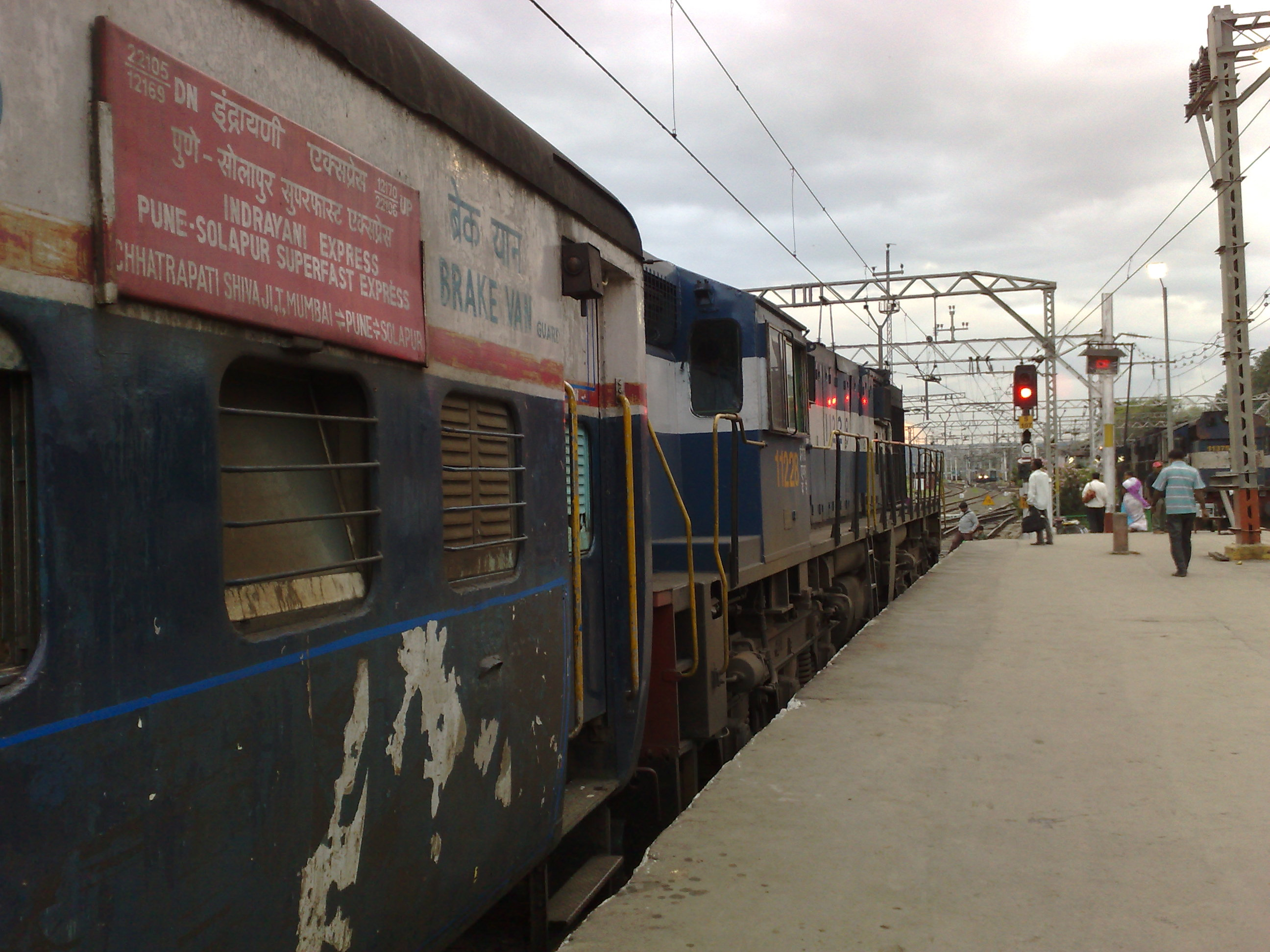 22106 Indrayani Express at Pune Junction